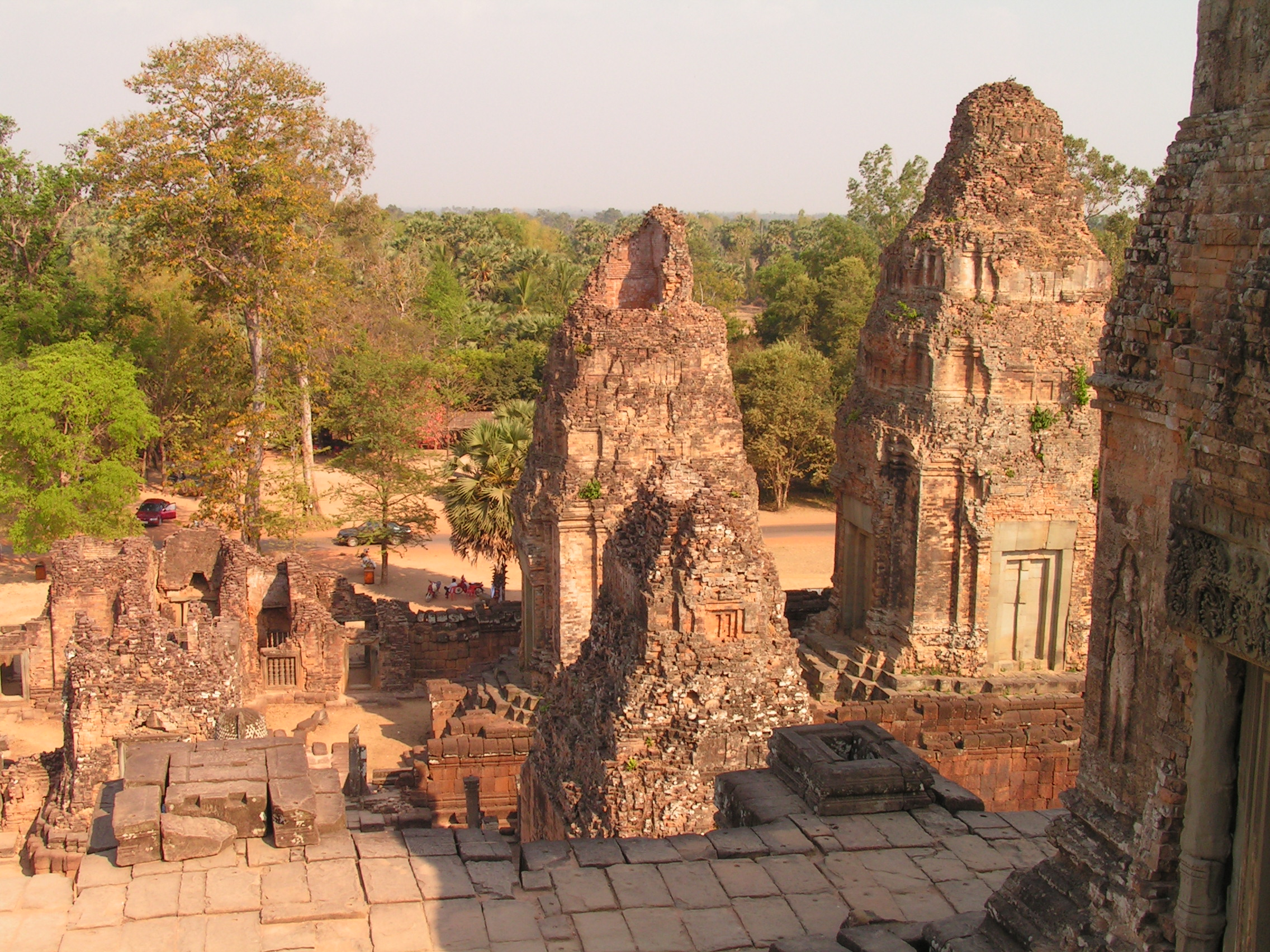 State temple Pre Rup at Angkor